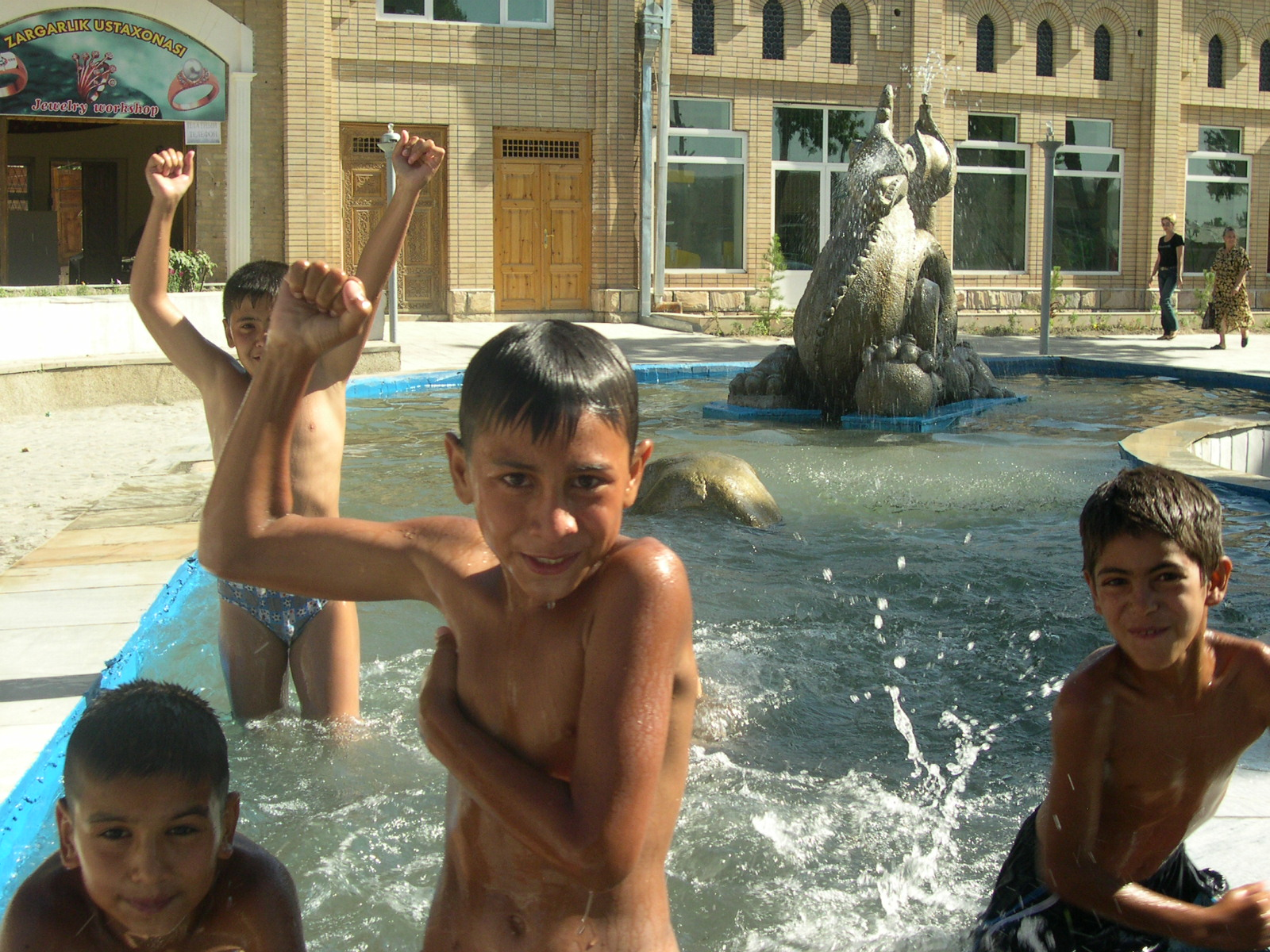 Uzbek children bathing in a fountain near the market of Smakand